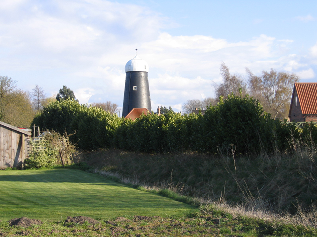 Kirton Windmill, Kirton End, Lincs – view from Holmes Road.